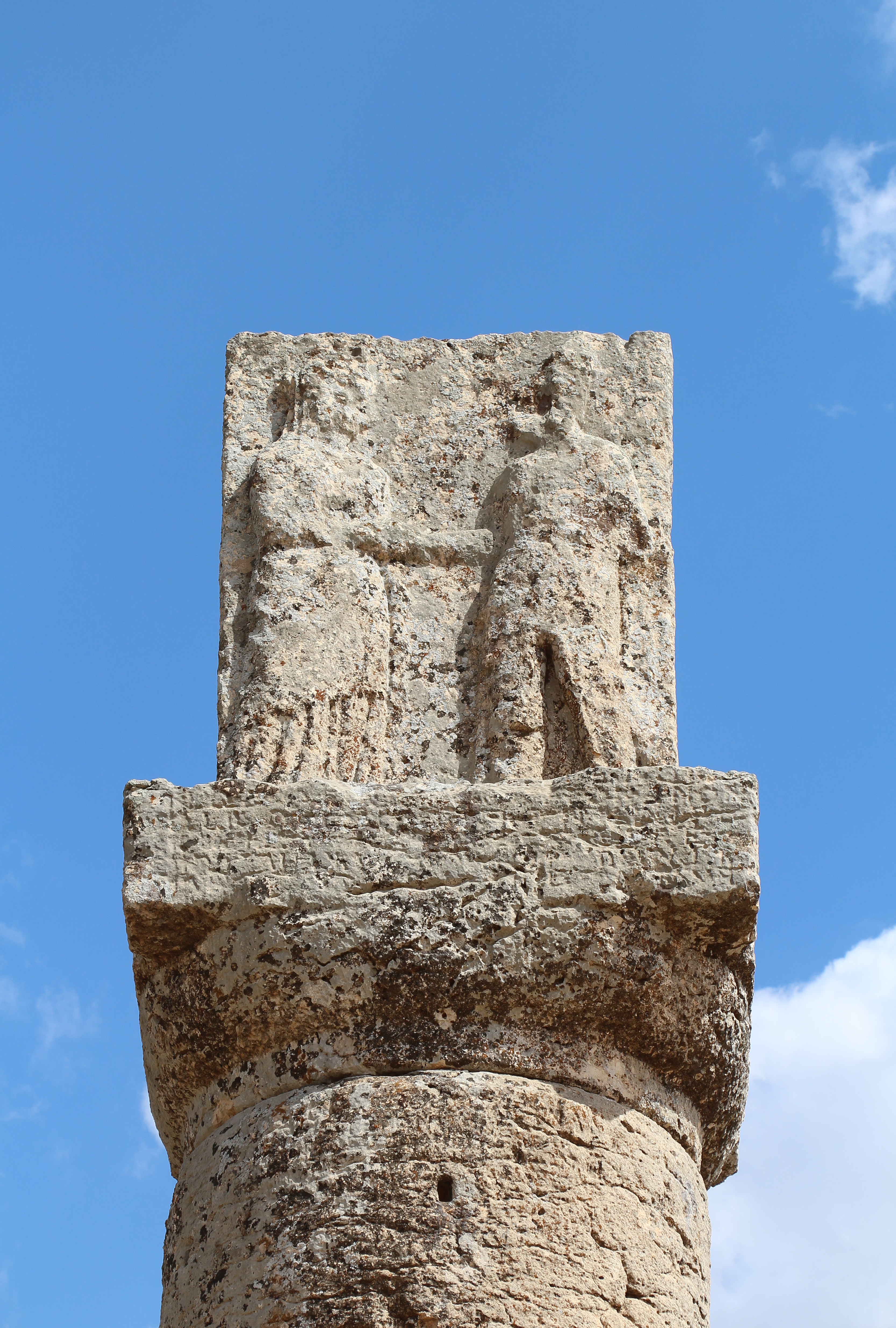 Relief of Mithridates II of Commagène and his sister Laodice at the top of a column at the west of the Tumulus of Karakus, Turkey